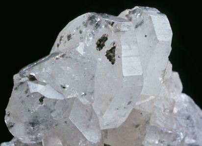 Phenakite